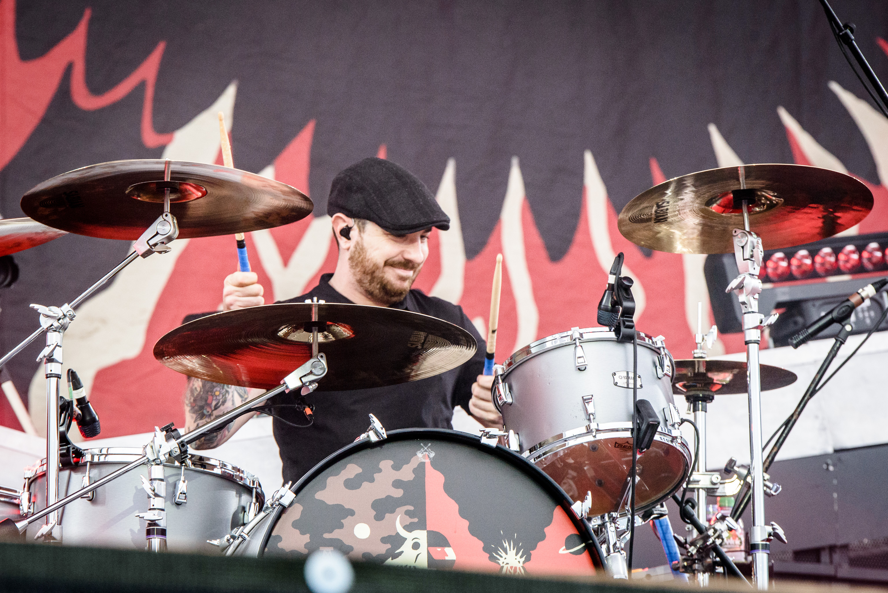 Billy Talent @ Rock im Park 2016